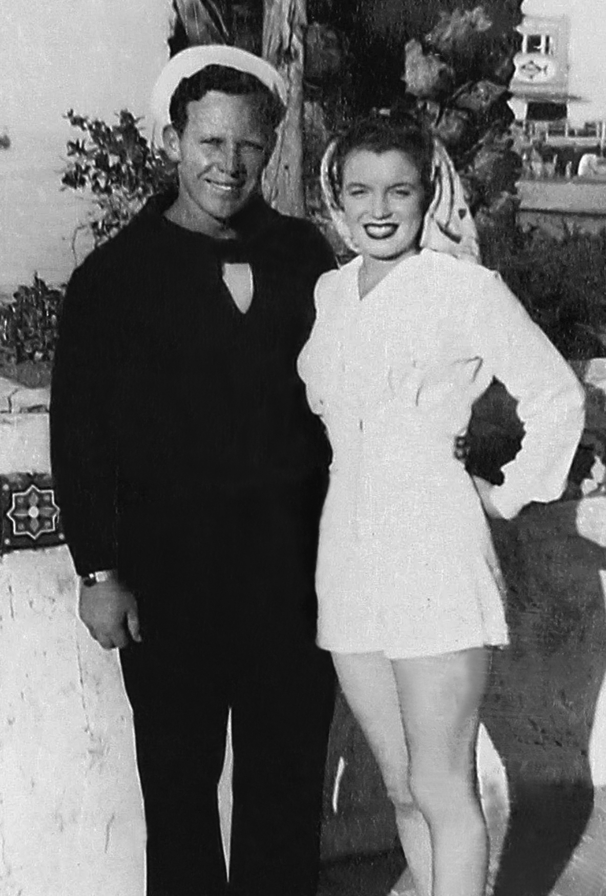 Photo of Marilyn Monroe with her first husband James Dougherty c. 1943–1944 from the December 1952 issue of Modern Screen. Note this is a larger, better quality copy of the photo seen on Modern Screen page 52. A renewal search was done at using the title Modern Screen. There were no listings for the publication; there's no evidence of continued copyright on the magazine.